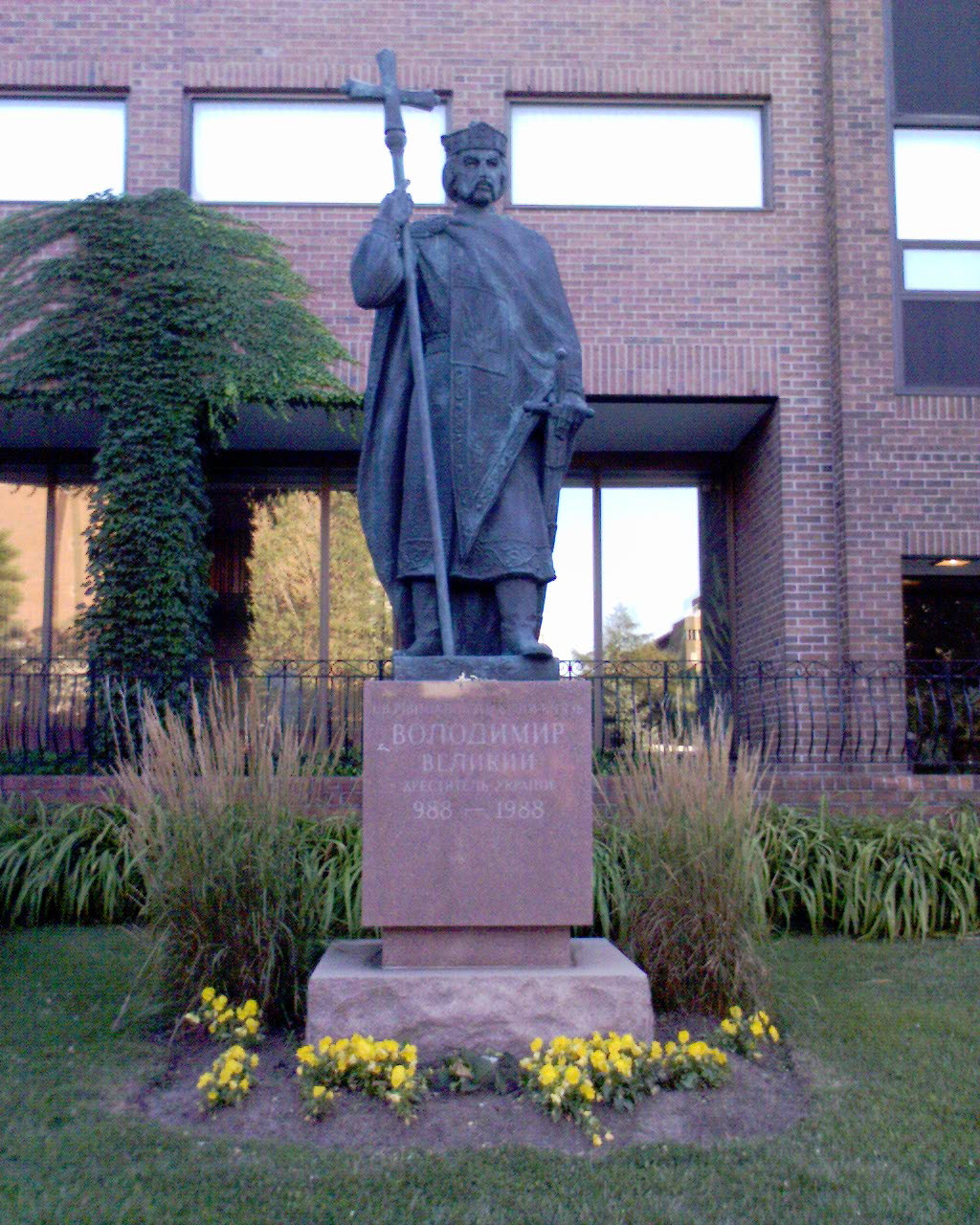 Statue of Vladimir Sviatoslavich the Great, the grand prince of Kiev who converted to Christianity in 988, and proceeded to baptise all of Kievan Rus. Ukrainian community, Downtown, Toronto @ August 12, 2006